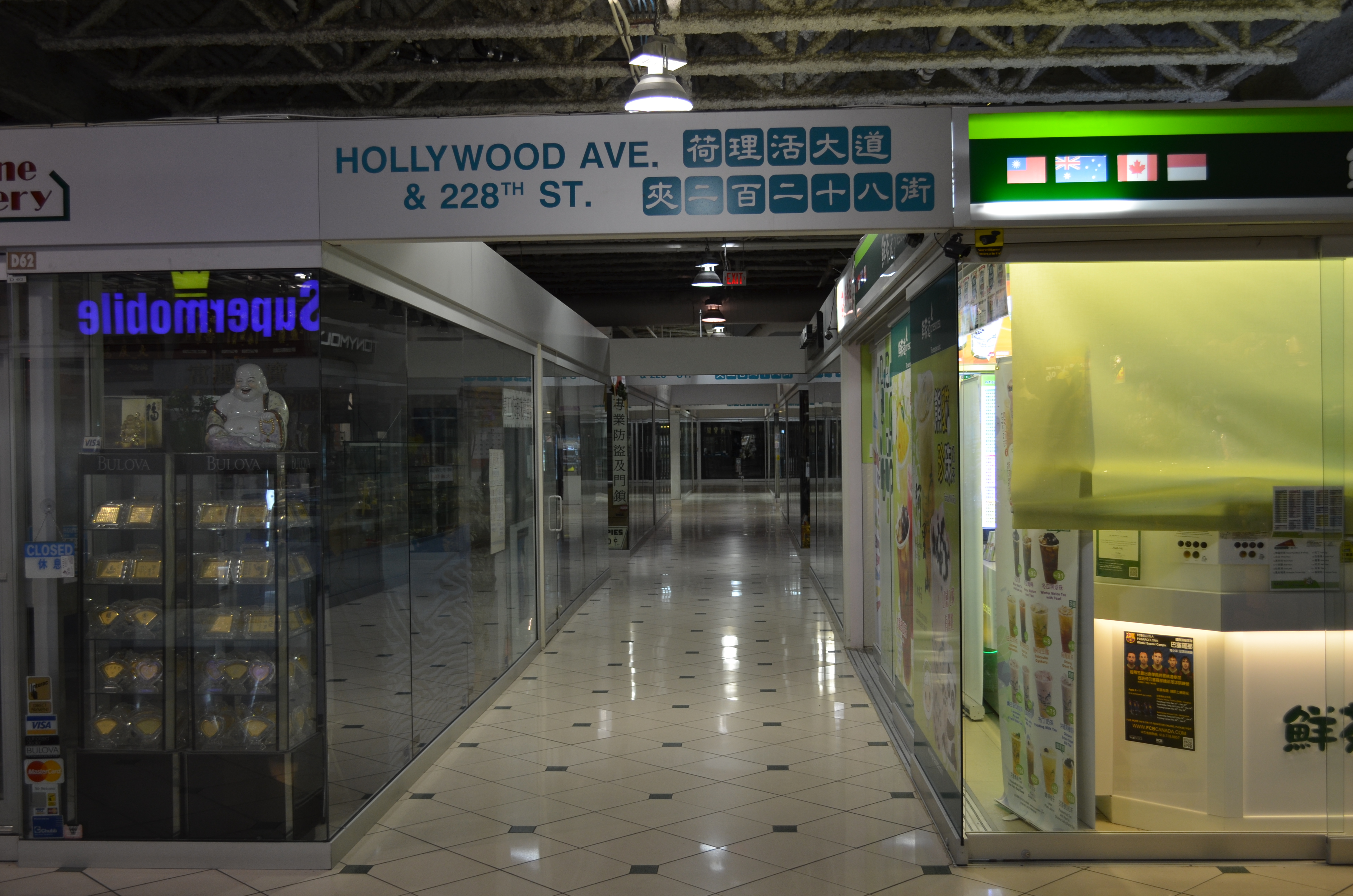 Inside Pacific Mall